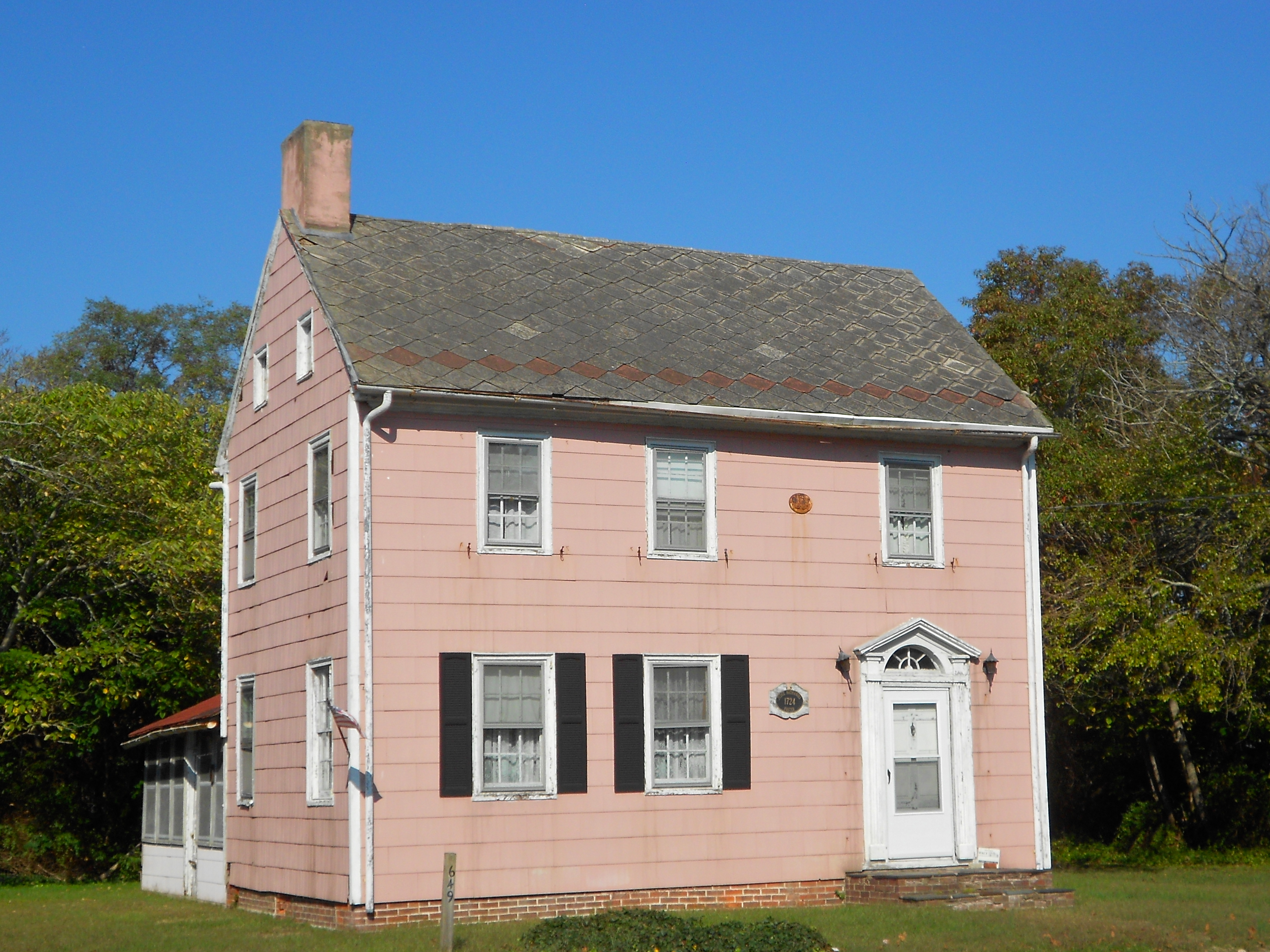 Judge Nathaniel Foster House listed on the NRHP on August 25, 2014 (#14000516) at 1649 Bayshore Dr. in Villas, Lower Township, Cape May County, New Jersey